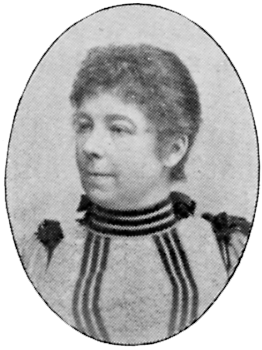 Image scanned from the book "Svenskt Porträttgalleri XX - Arkitekter, Bildhuggare, Målare m.fl. " ("Swedish Portrait Gallery XX - Architects, Sculptors, Painters, ") published 1901